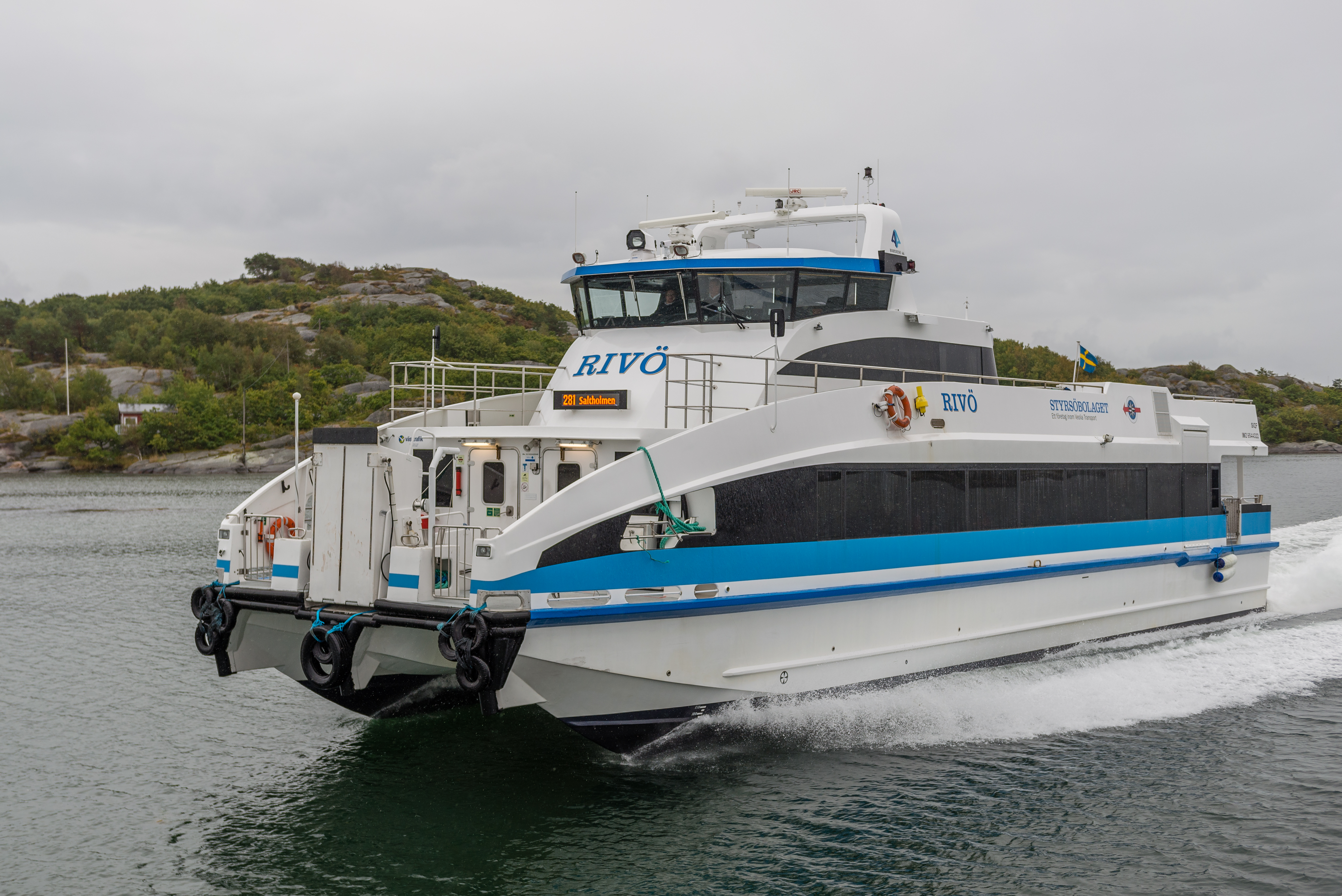 The ship Rivö in the strait between Donsö and Styrsö in Gothenburg archipelago, Sweden.